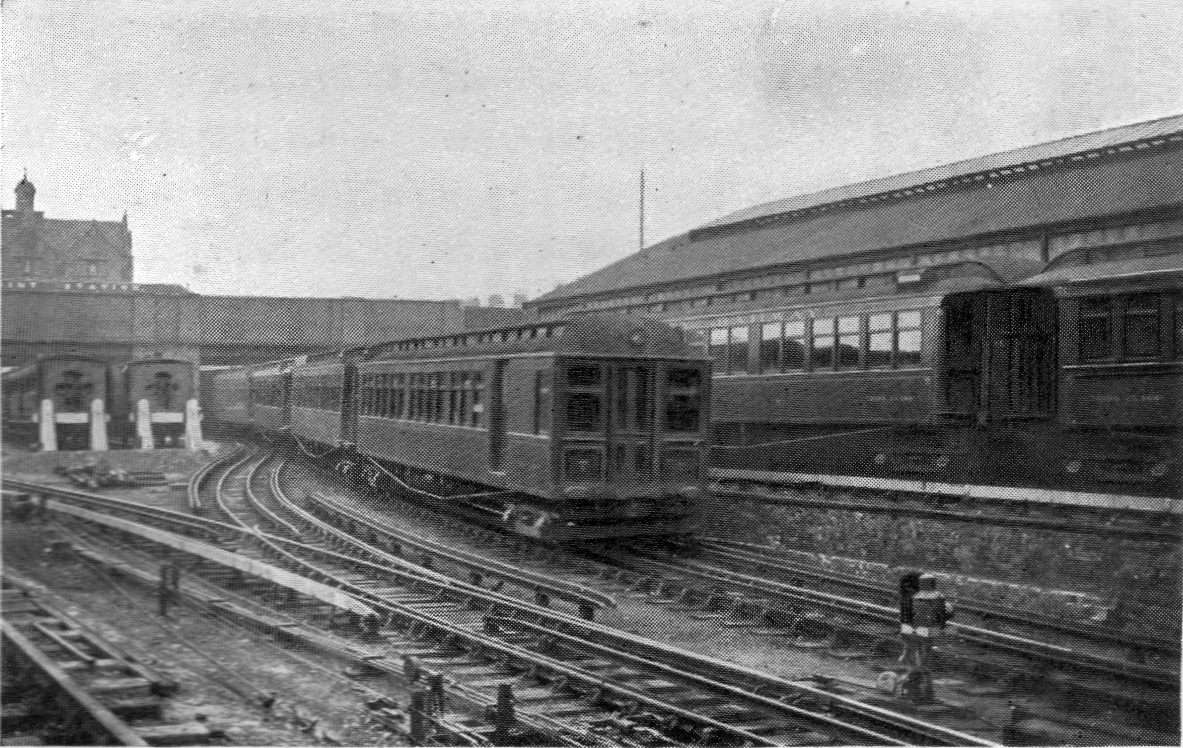 The Electrified Mersey Railway A Mersey Railway EMU travelling towards Liverpool having just departed from Birkenhead Park railway station.